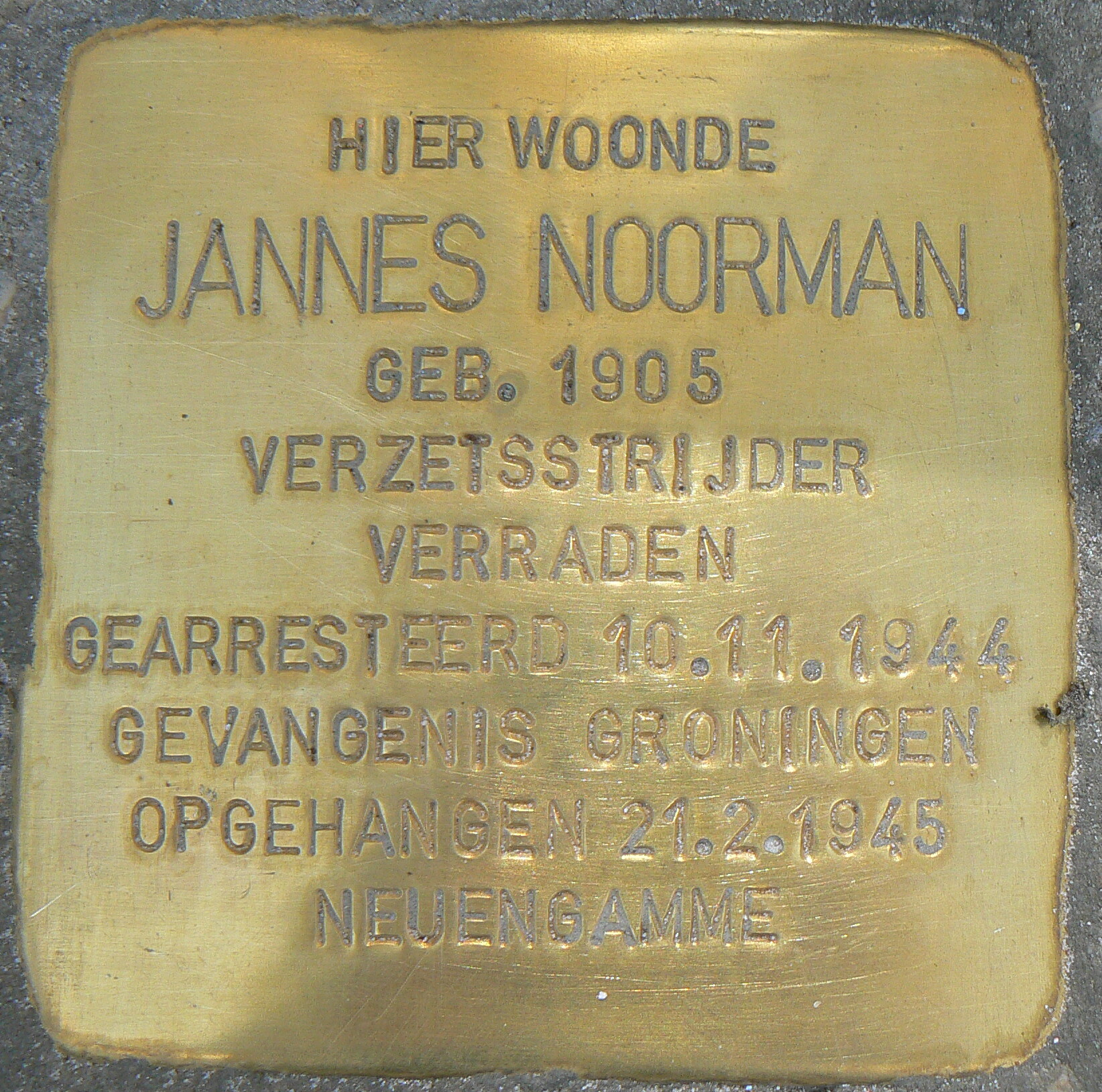 Stolpersteine Jannes Noorman 11-04-2010 (resistance movement), Anna Paulownastraat 26 in Groningen/The Netherlands